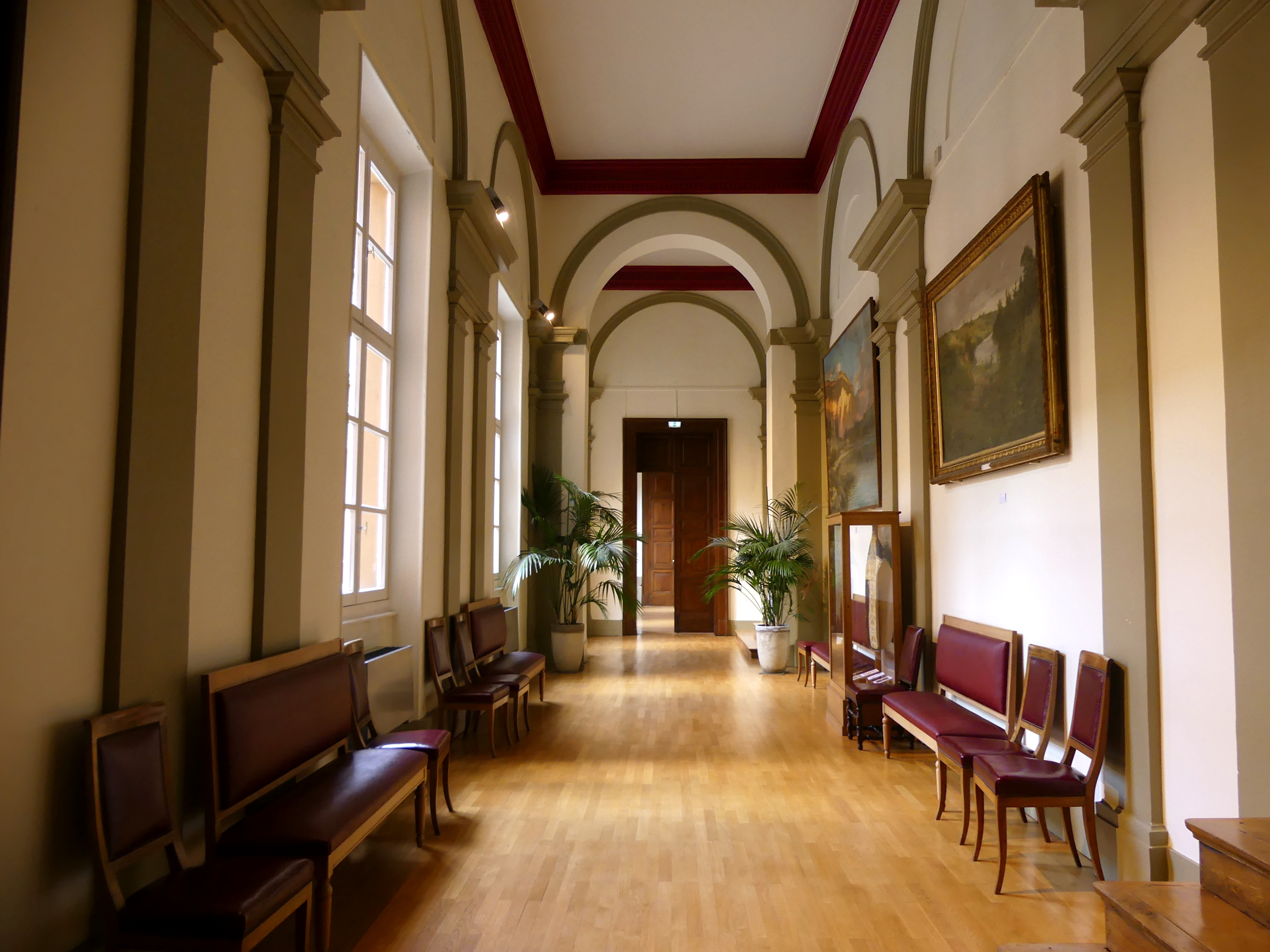 Sight of one of the two galleries at the first floor of the Chambéry courthouse, in Savoie, France.